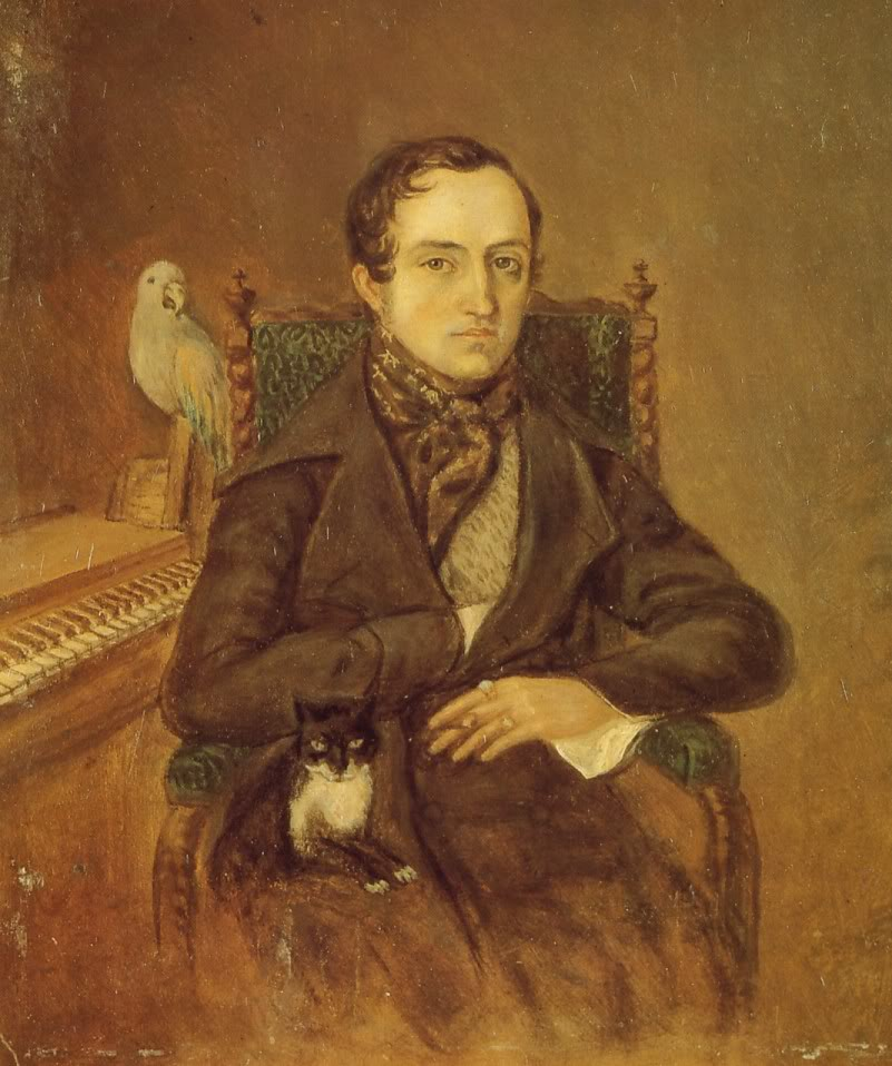 Portrait of V. F. Odoevsky (1803-1869)